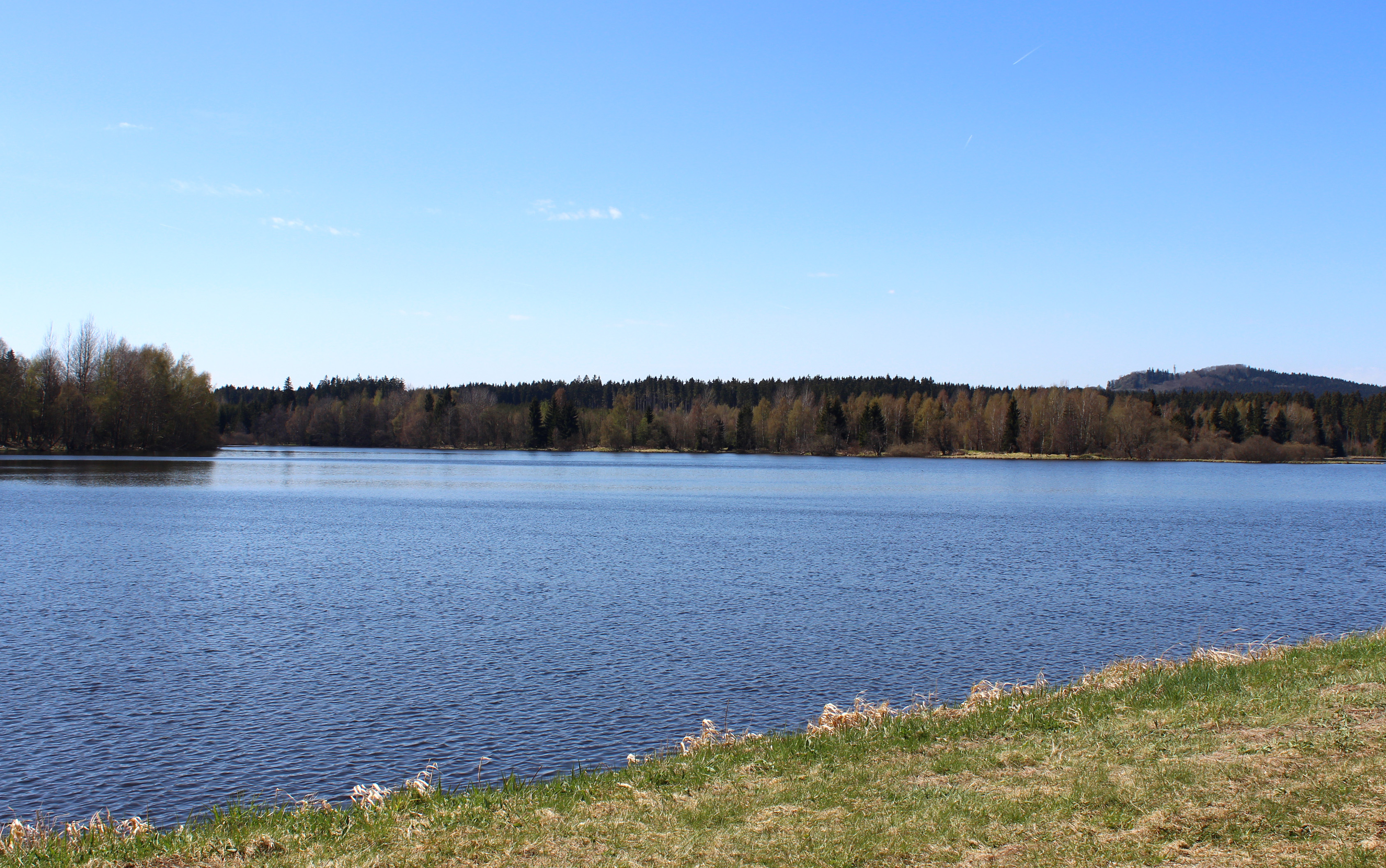 Podhora Reservoir on Teplá River, Czech Republic